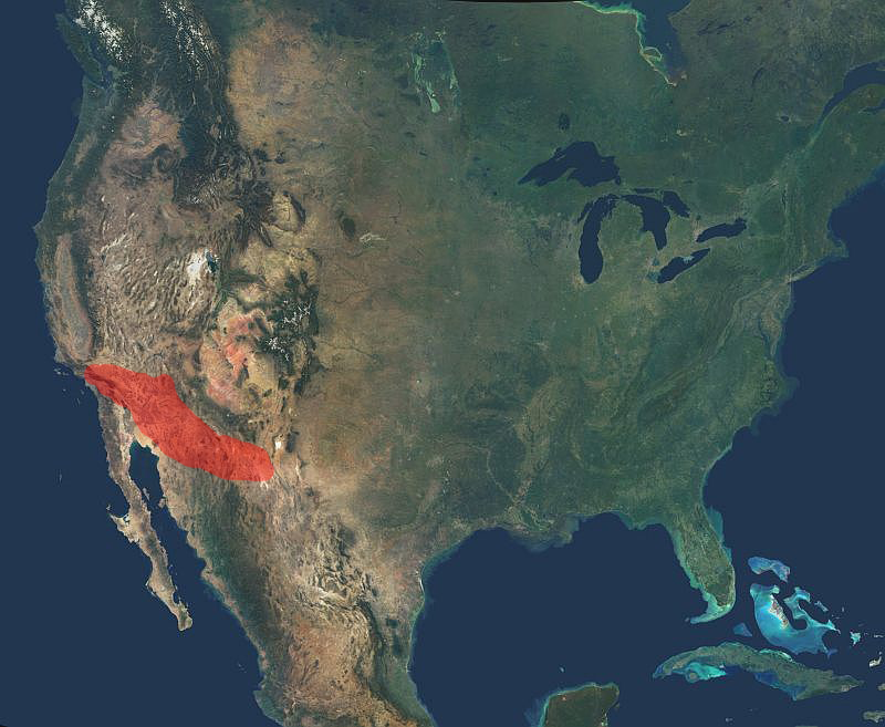 Distribution map of Aphonopelma chalcodes